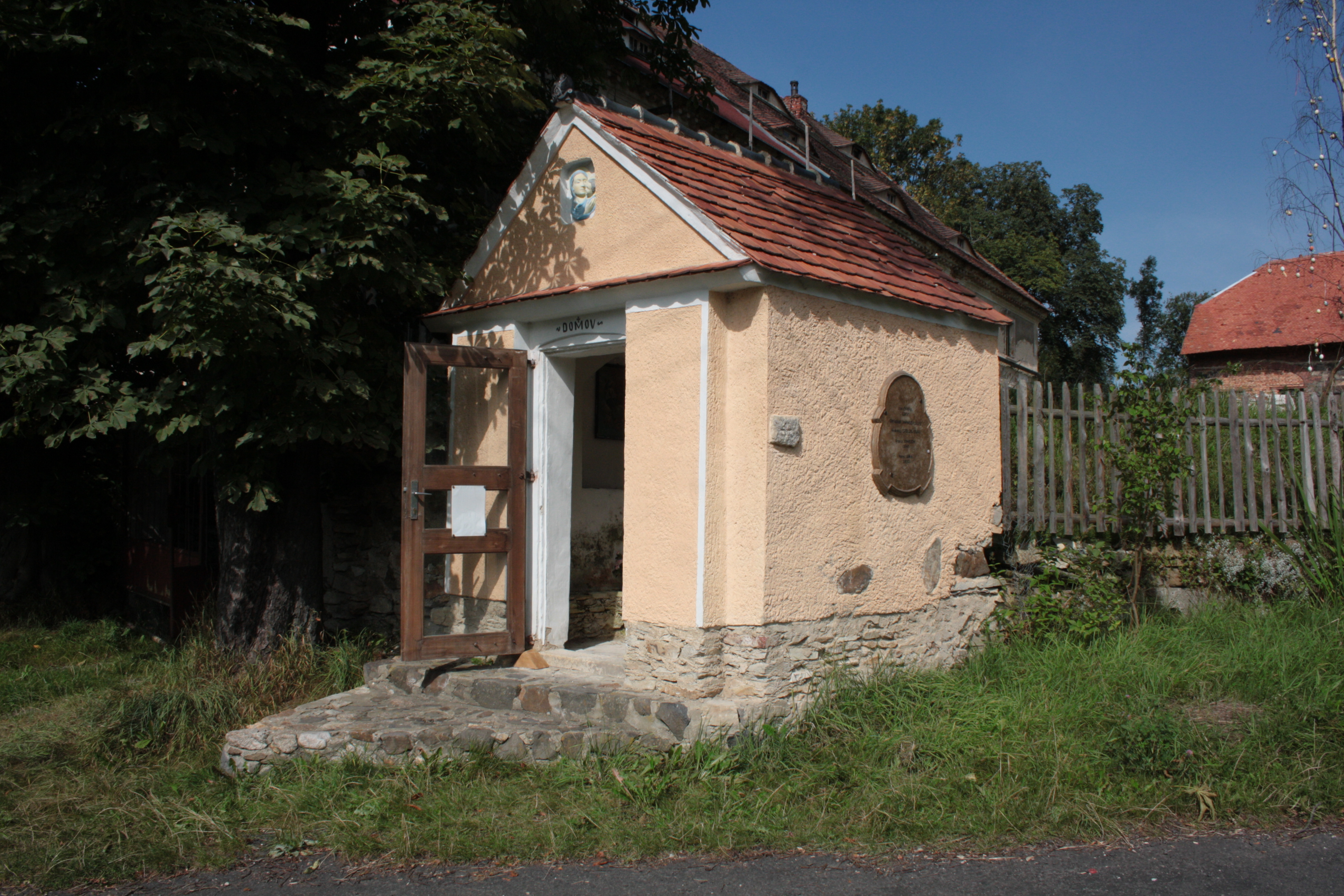 This photograph was taken with a DSLR from WMCZ's Camera grant. Kaplička v Dolní Řasnici.